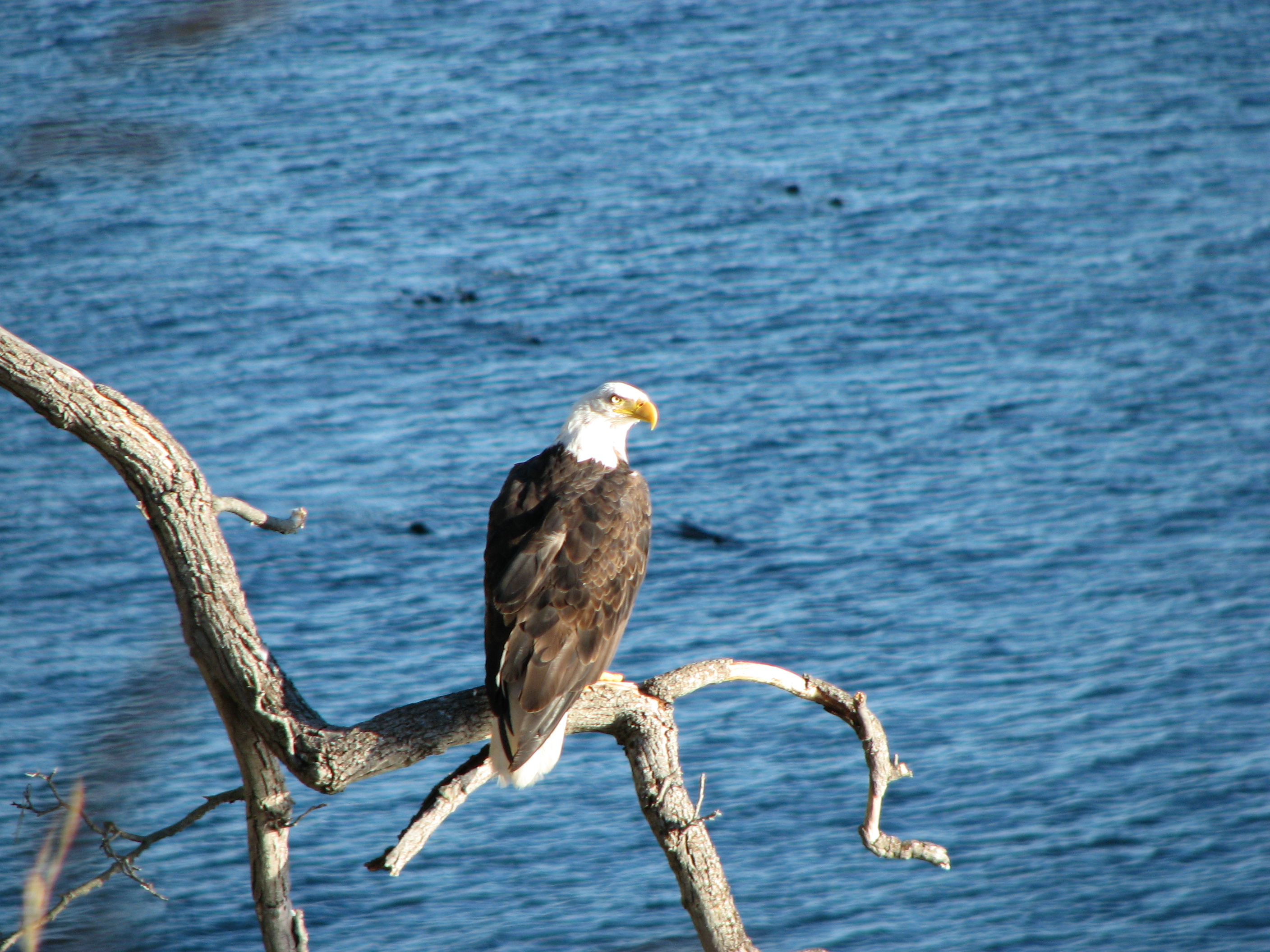 A Bald Eagle found in Canada in the Gulf Islands